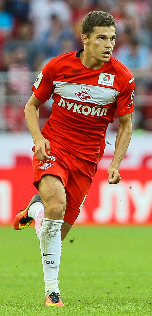 Roman Zobnin